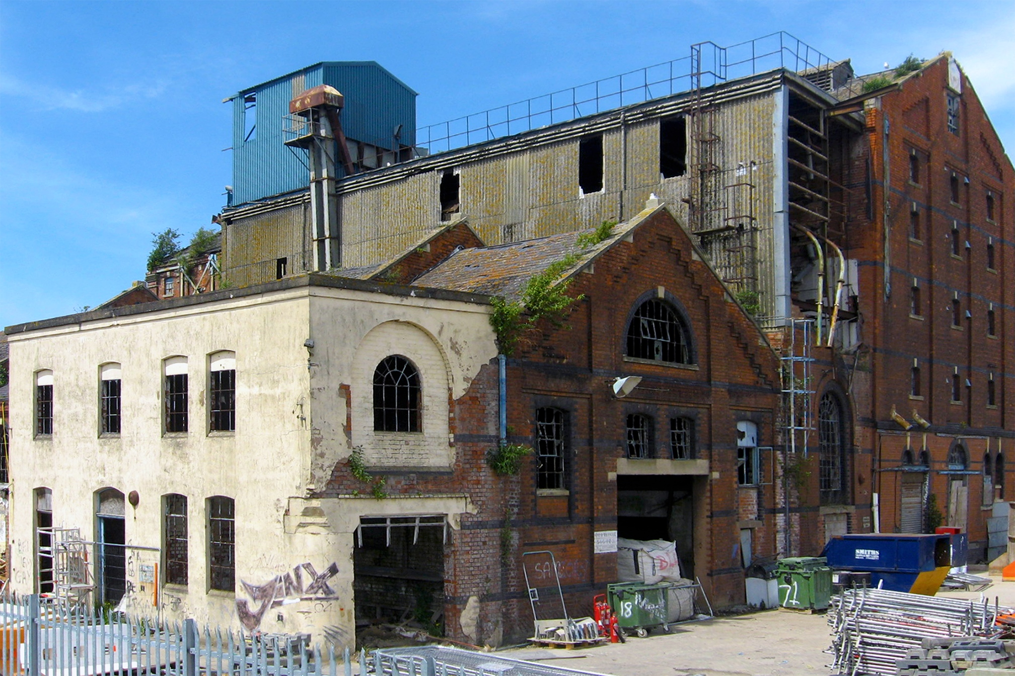 Derelict buildings at Gloucester Docks 2009